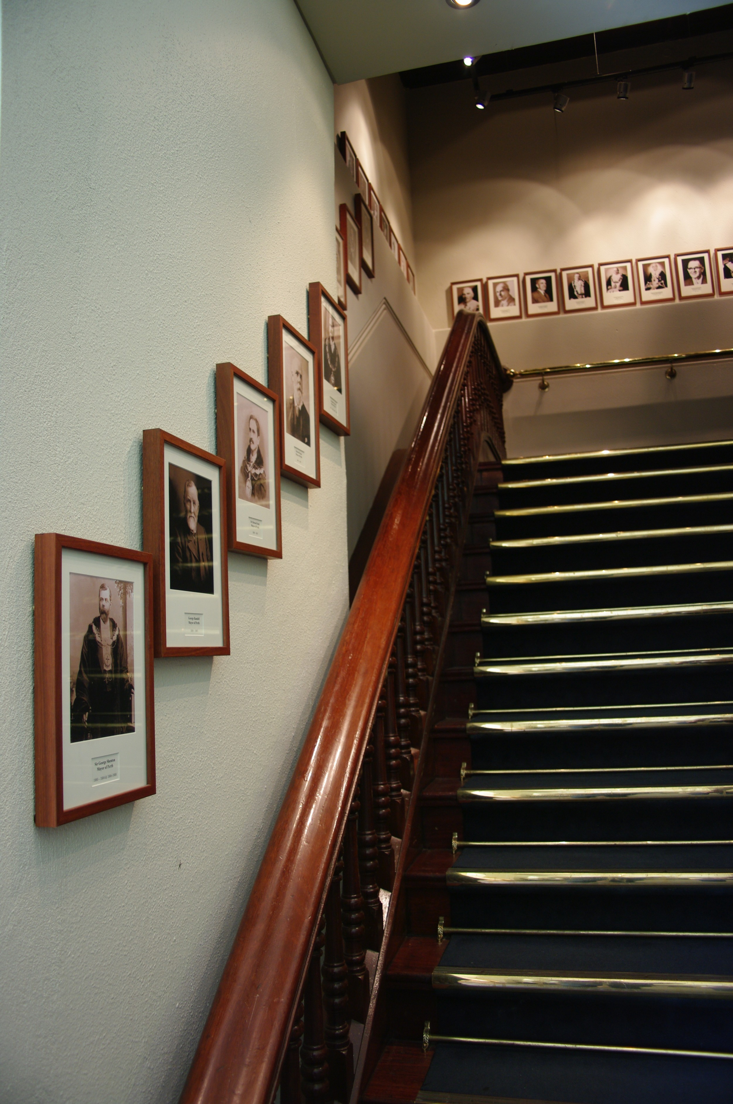 Perth Town Hall Lookng up the Jarrah stair case, Photographs on the wall are of each Lord Mayor of Perth starting with George Shenton